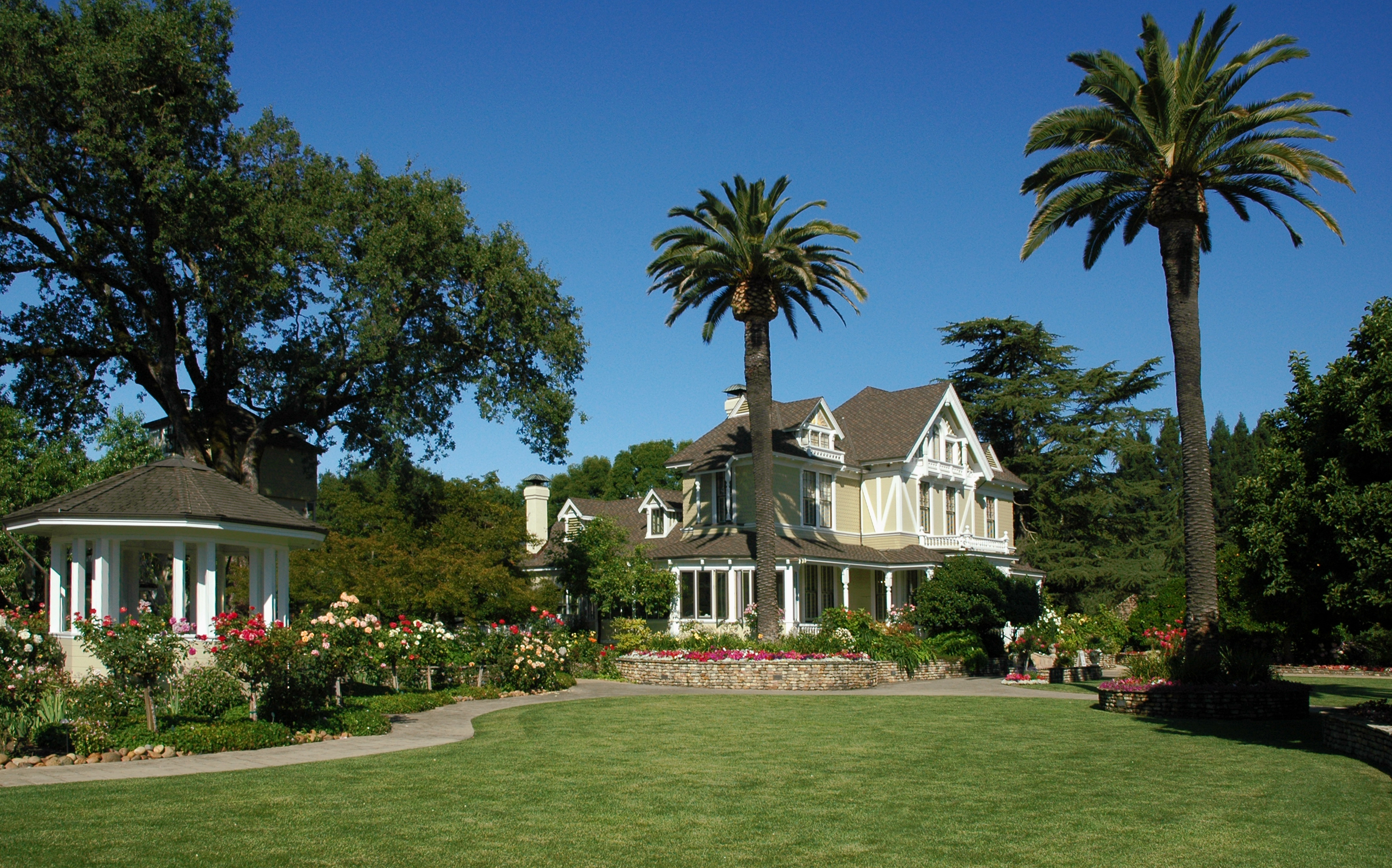 Sutter Home Winery in St. Helena, Napa County, California. This house is the one featured on the wine labels.